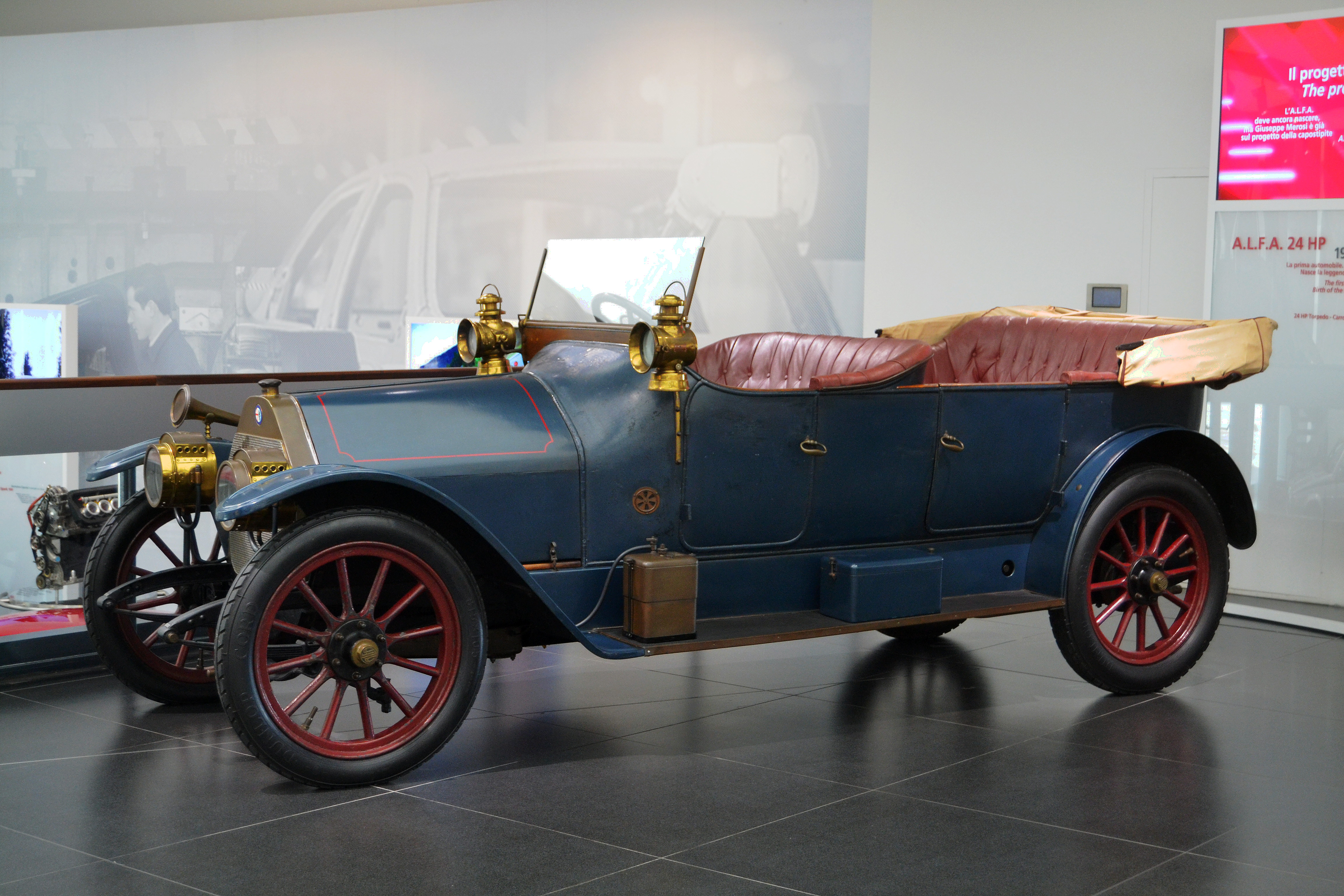 A.L.F.A. 24 HP (1910), shown at Alfa Romeo Museum, Arese, Milano, Italy